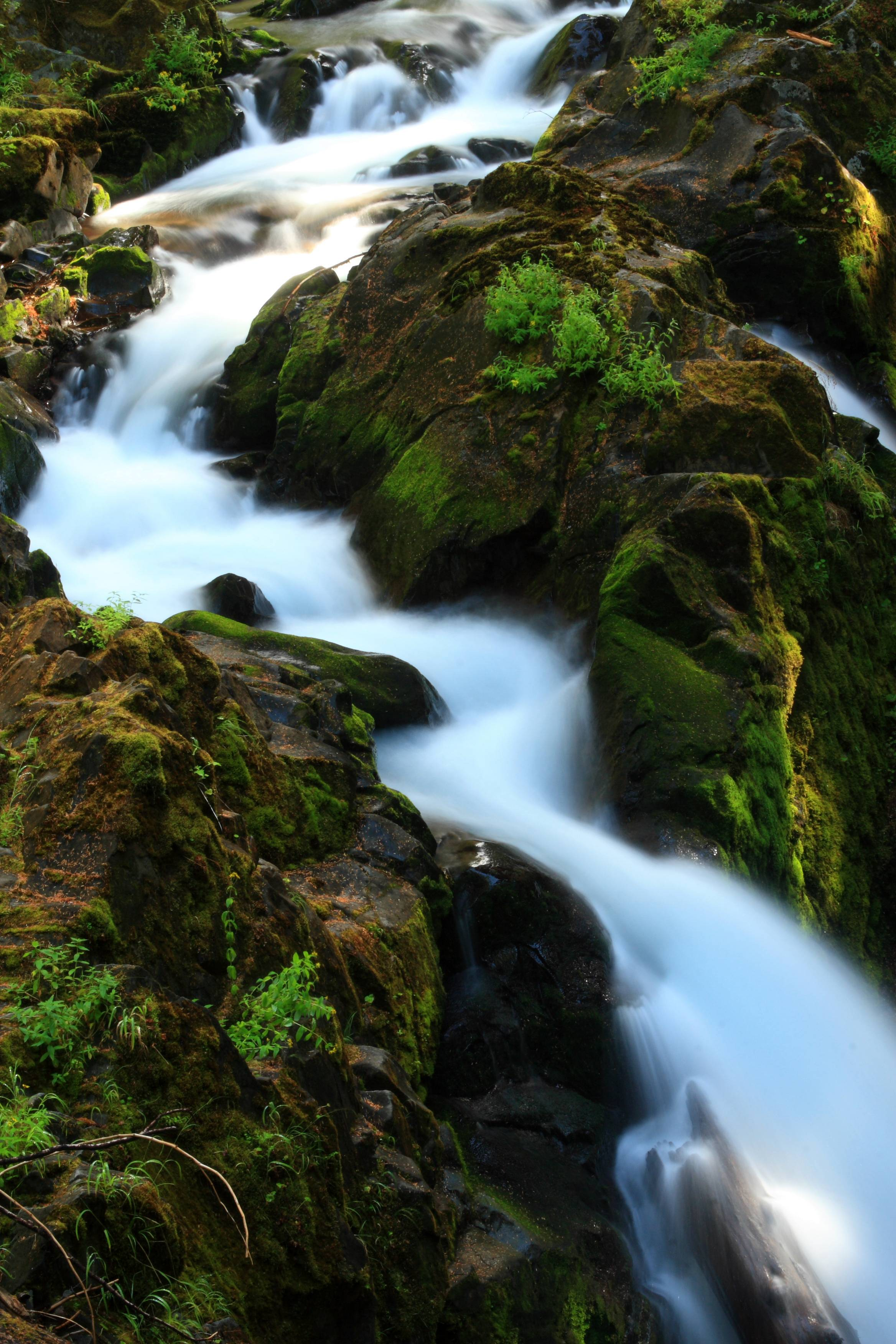 Sol Duc Falls, Olympic National Park, Washington, USA